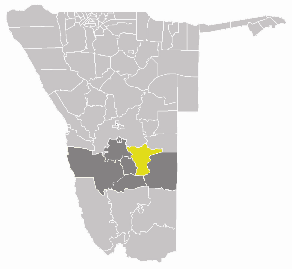 map of the Mariental Rural constituency within the Hardap region, Namibia